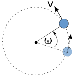 Circluar motion